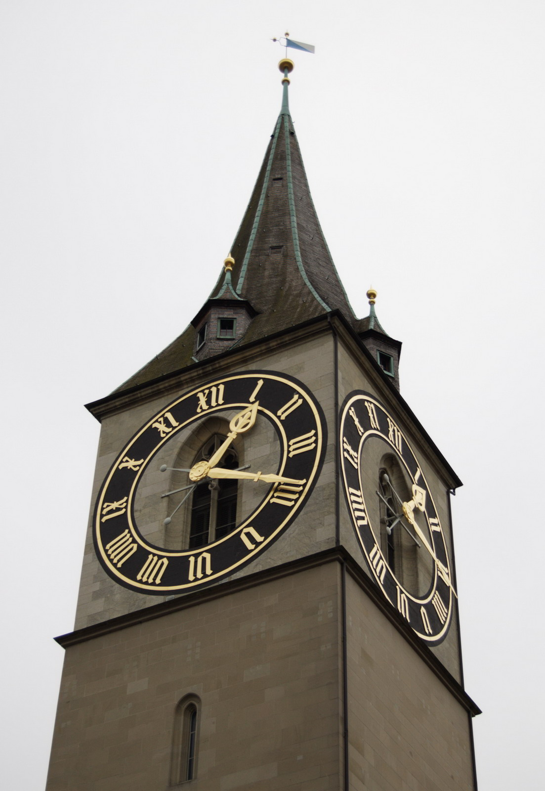 Biggest clock face in Europe